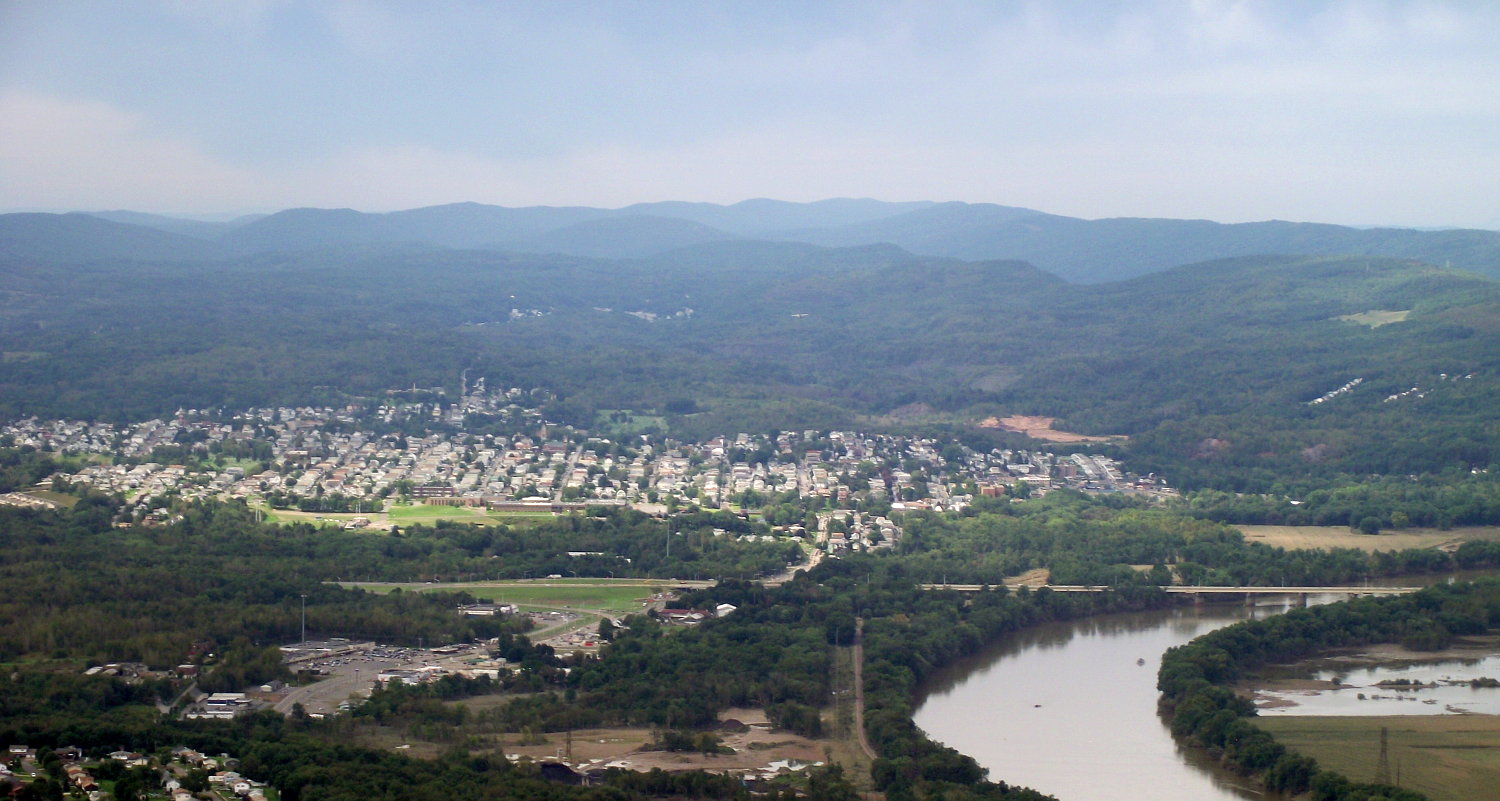 Aerial view of Nanticoke looking southwest. Downtown can be seen on the extreme right.